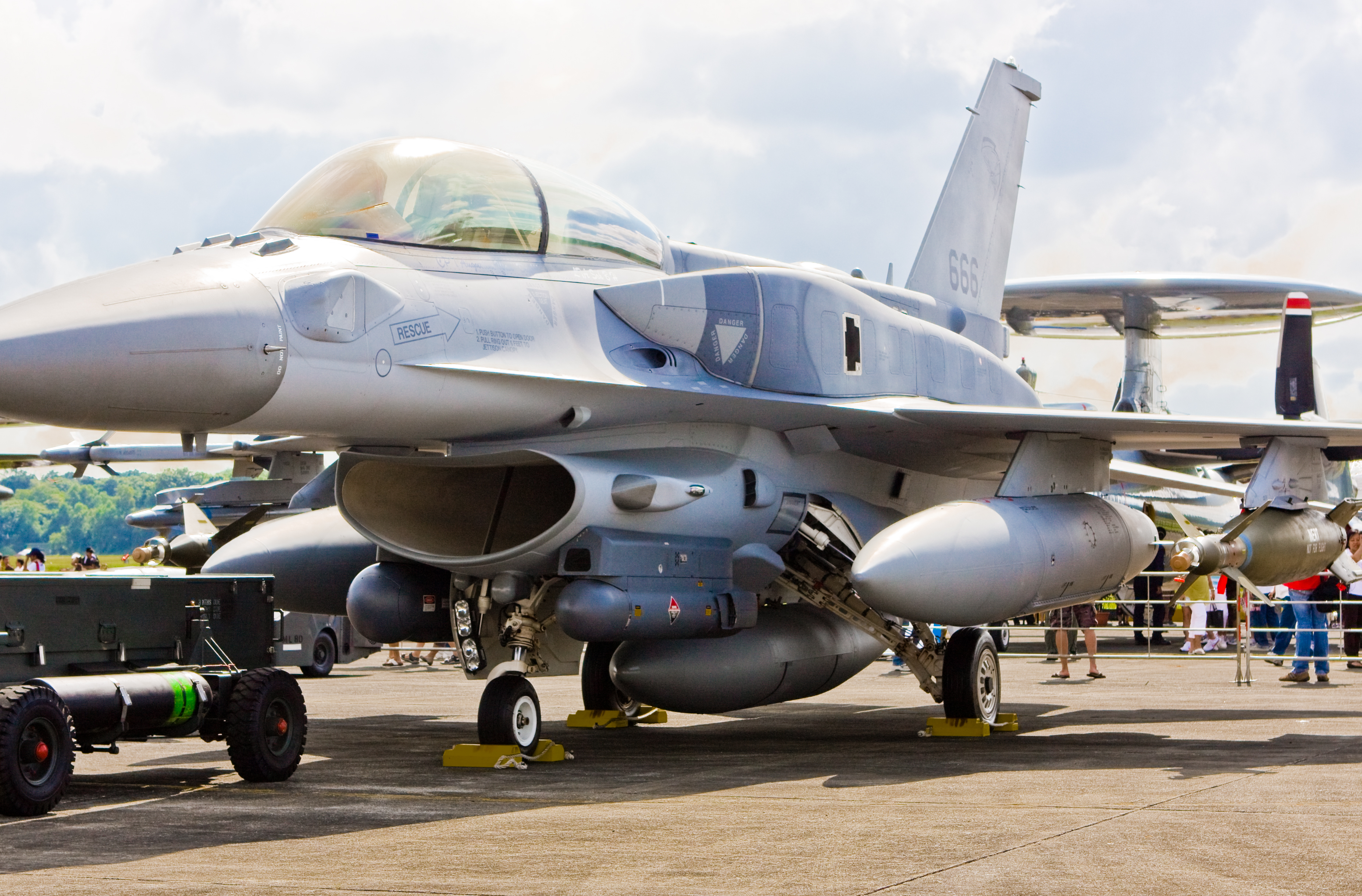 Latest RSAF F-16D Block 52+ Fighting Falcon with Conformal Fuel Tanks and LANTIRN (Low Altitude Navigation and Targeting Infra-red system for Night) Pods